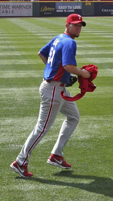 Brad Lidge during pregame warmups